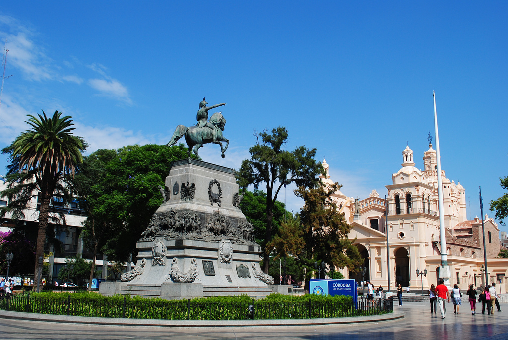 San Martin square. Cordoba, Argentina.